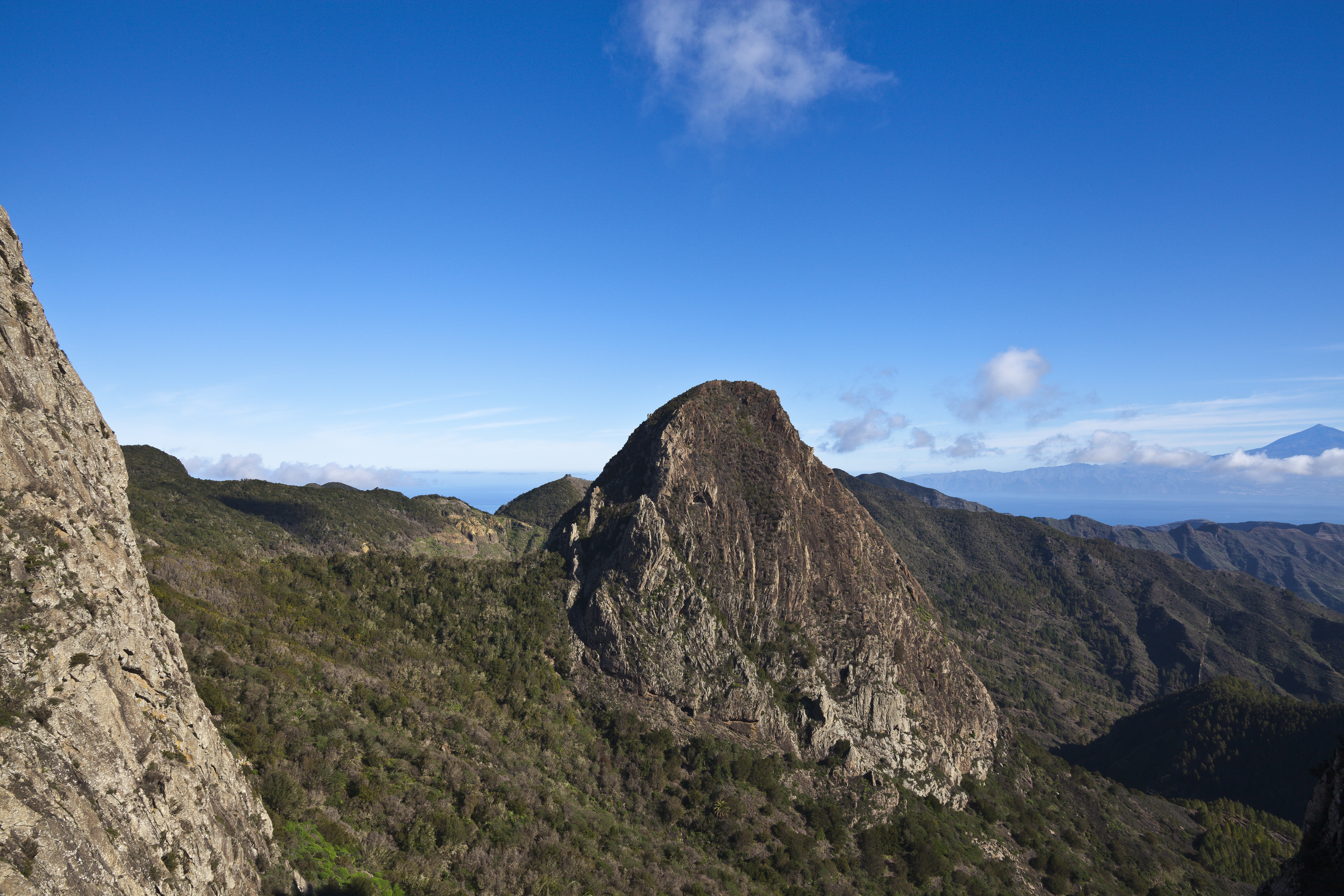 Garajonay National Park, La Gomera, Spain